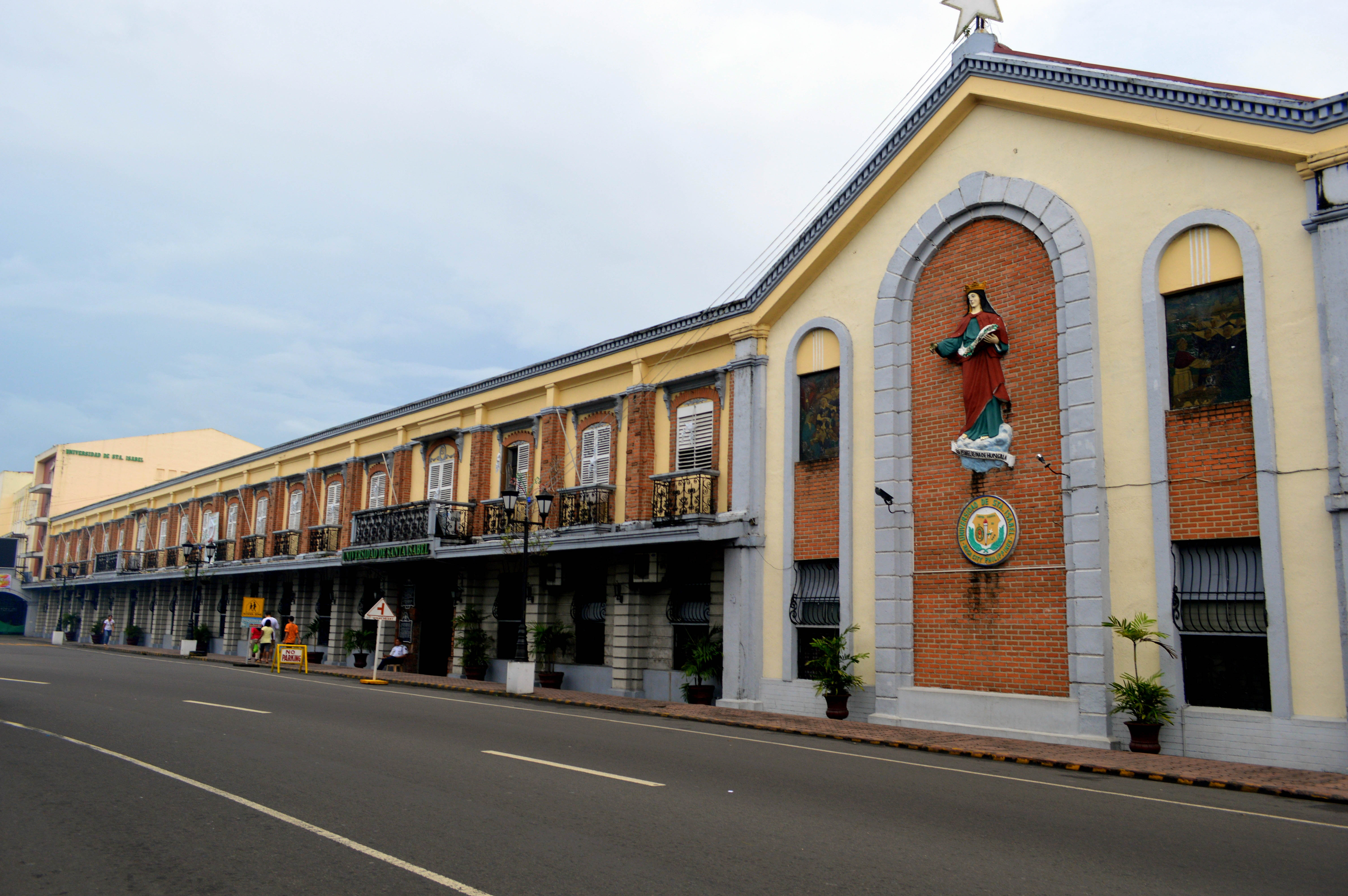 Universidad de Santa Isabel, Naga, Camarines Sur